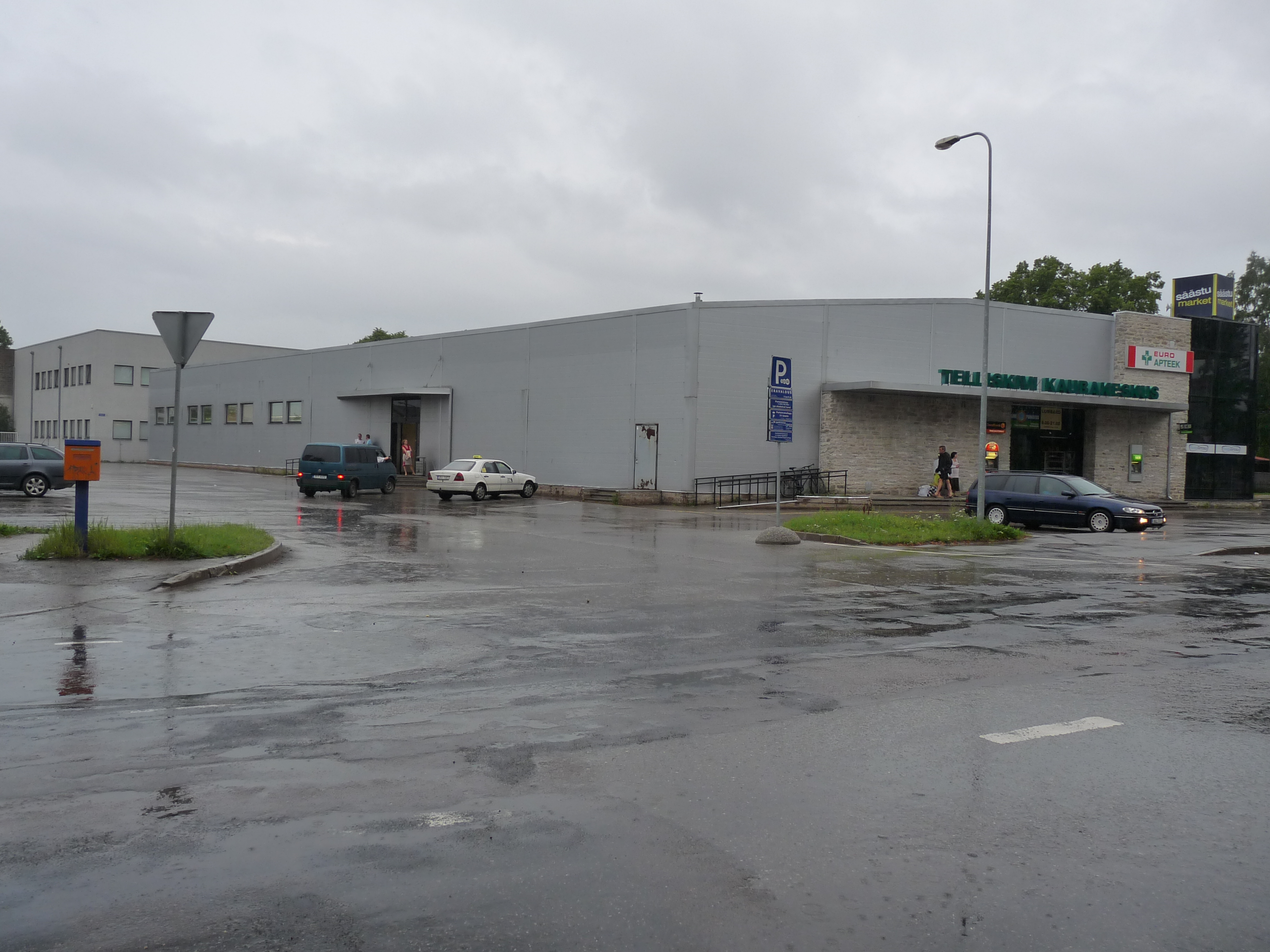 Säästumarket at Telliskivi kaubakeskus (Telliskivi 61) in Tallinn, Estonia. The shop operated there until 2014,[1] when it was refitted to become a Rimi store by 3 October 2014.[2]